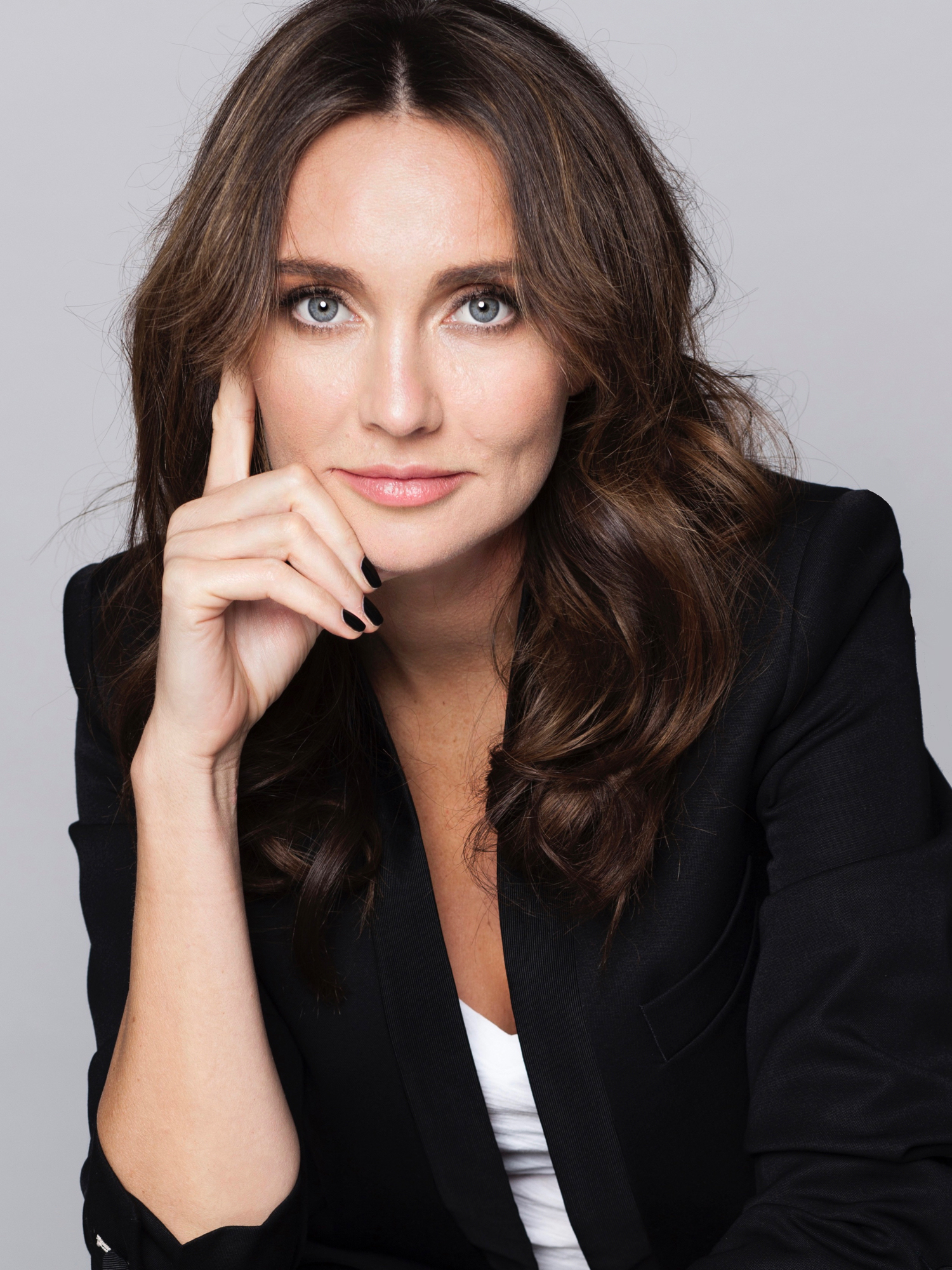 Dominika Kulczyk - photo by Piotr Porębski